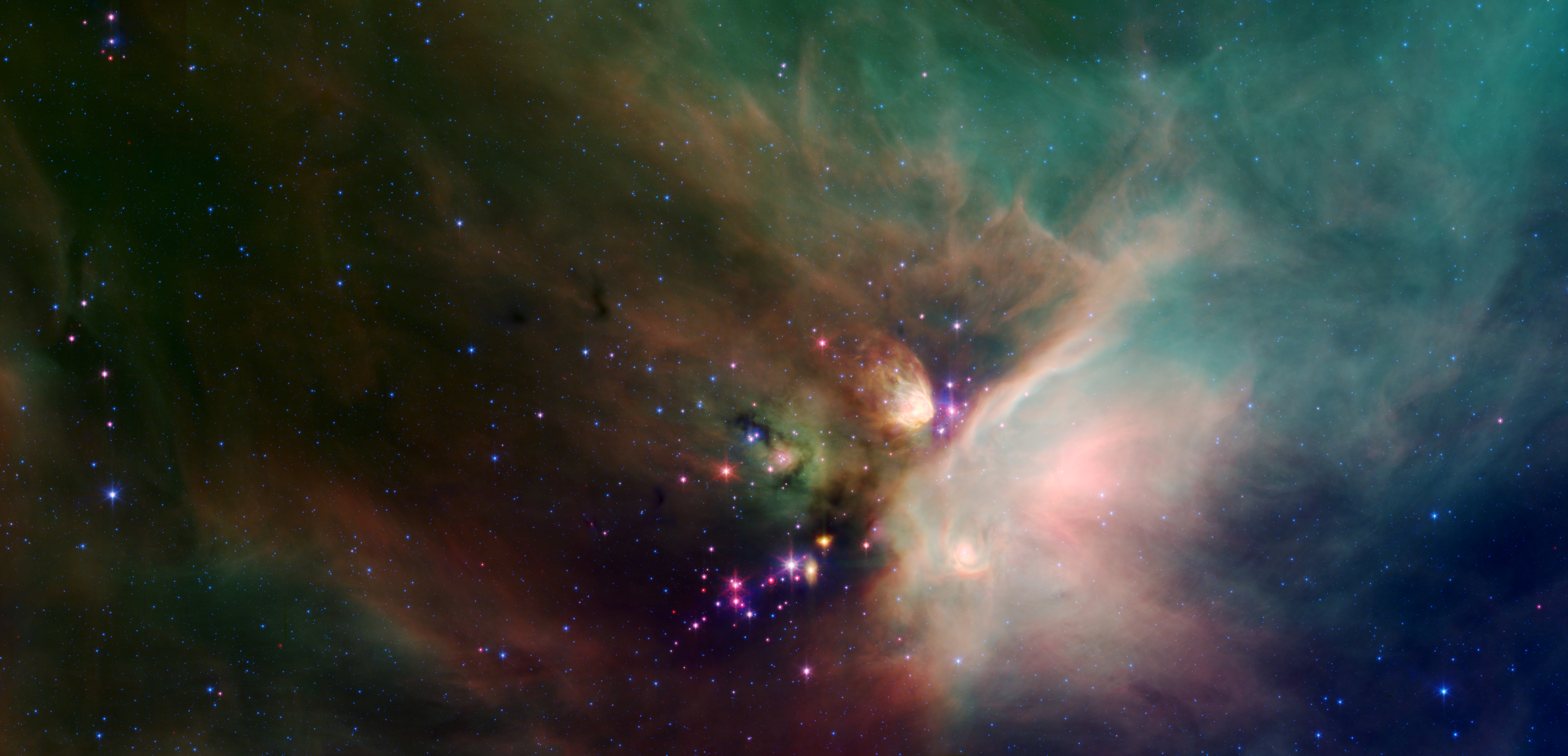 Cosmic dust clouds and embedded newborn stars glow at infrared wavelengths in this tantalizing false-color view from the Spitzer Space Telescope. Pictured is of one of the closest star forming regions, part of the Rho Ophiuchi cloud complex some 400 light-years distant near the southern edge of the pronounceable constellation Ophiuchus. The view spans about 5 light-years at that estimated distance. After forming along a large cloud of cold molecular hydrogen gas, newborn stars heat the surrounding dust to produce the infrared glow. An exploration of the region in penetrating infrared light has detected some 300 emerging and newly formed stars whose average age is estimated to be a mere 300,000 years -- extremely young compared to the Sun's age of 5 billion years.